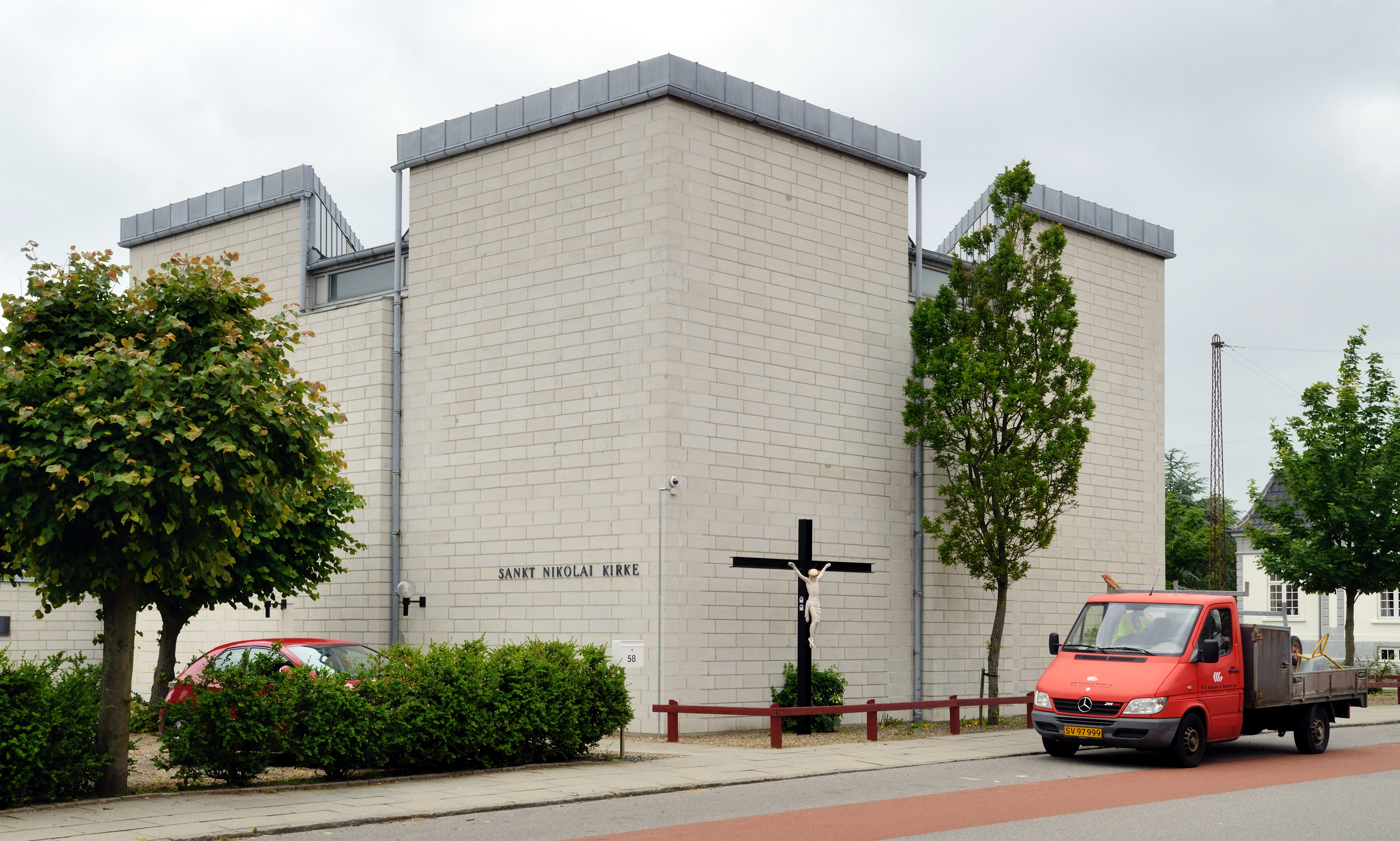 Esbjerg: Saint Nikolai Church